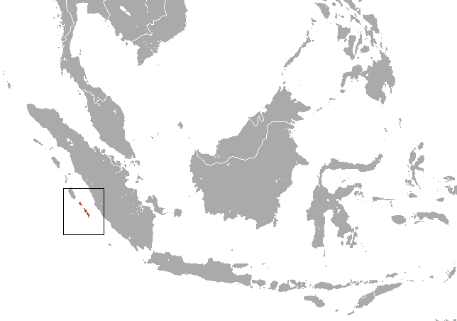 Pagai Island Macaque (Macaca pagensis) range